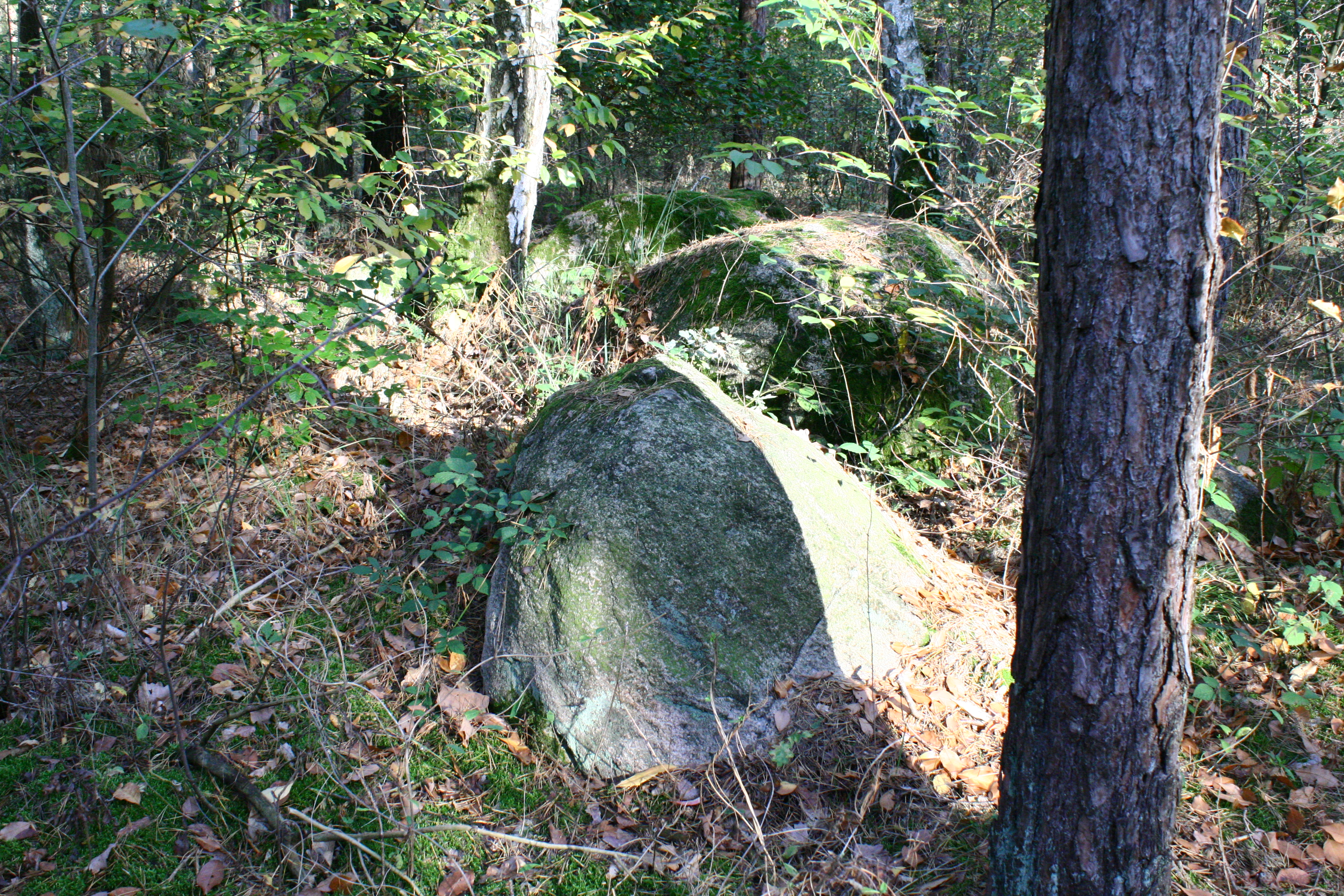 Megalithic tomb Haldensleben II 22